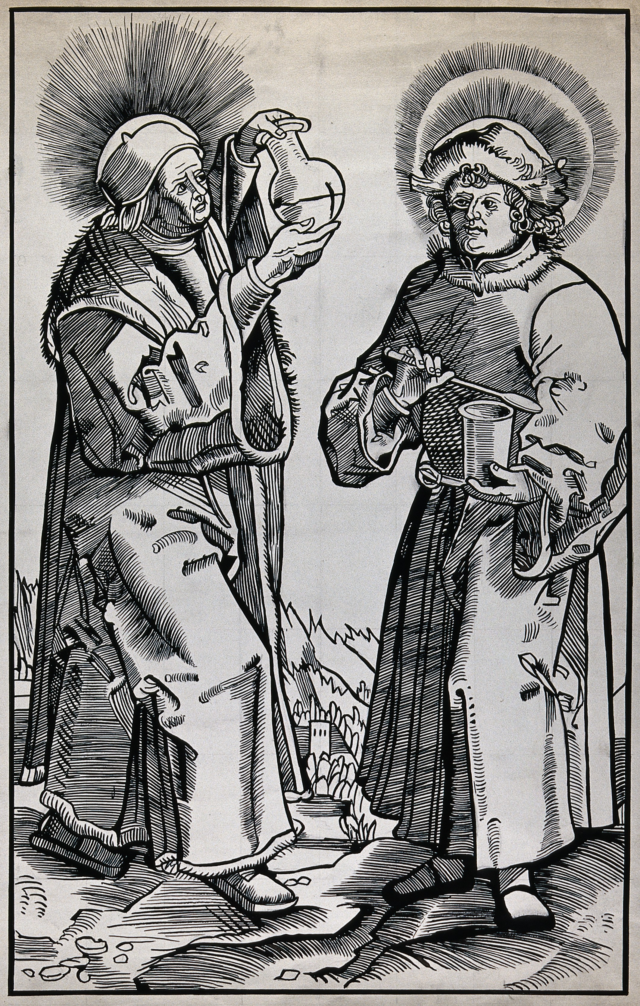 Saint Cosmas and Saint Damian. Ink drawing after a woodcut by H. Wechtlin. Iconographic Collections